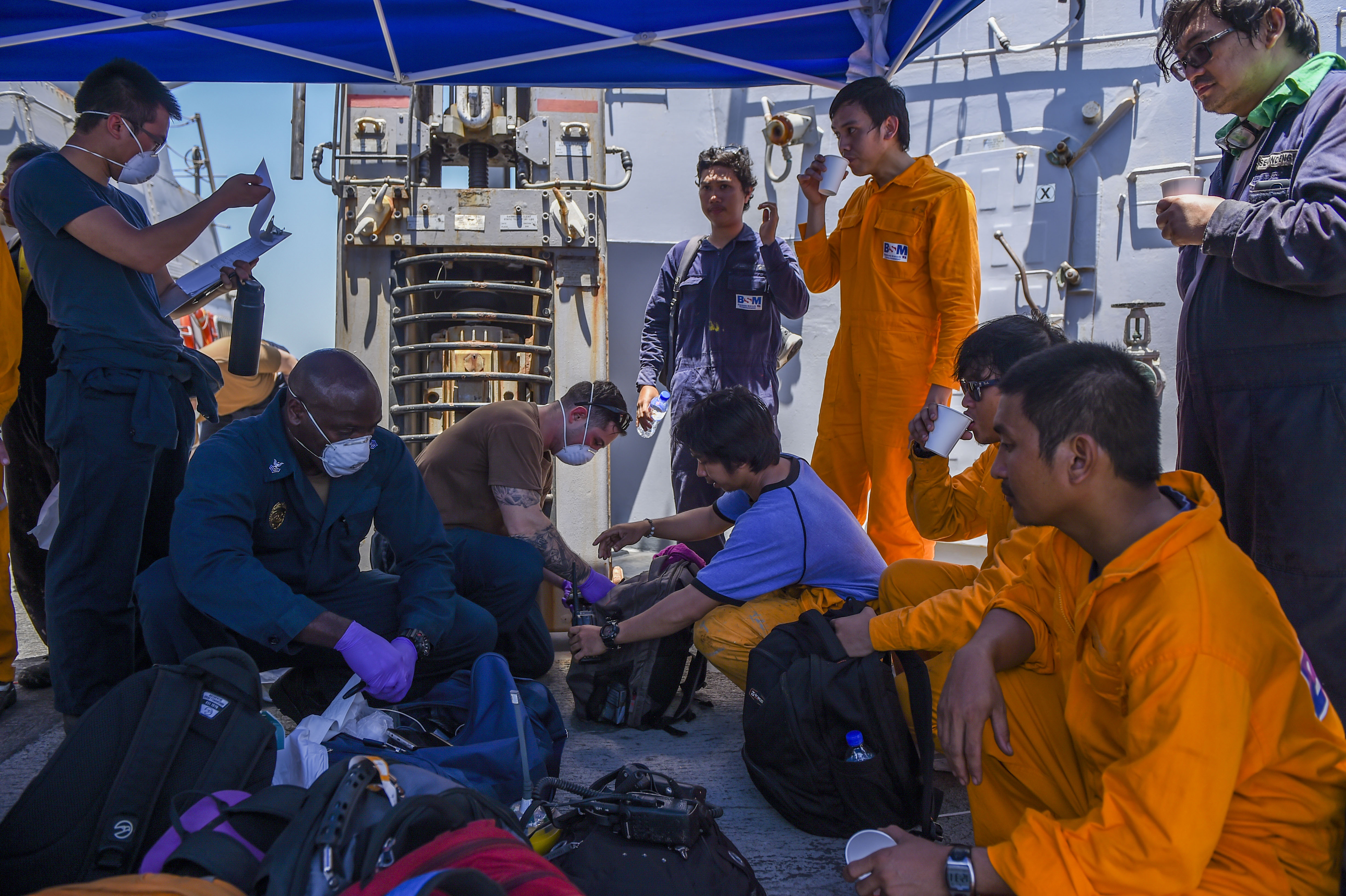 GULF OF OMAN (June 13, 2019) Sailors aboard the Arleigh Burke-class guided-missile destroyer USS Bainbridge (DDG 96) render aid to the crew of the M/V Kokuka Courageous. Bainbridge is deployed to the U.S. 5th Fleet areas of operations in support of naval operations to ensure maritime stability and security in the Central Region, connecting the Mediterranean and Pacific through the western Indian Ocean and three strategic choke points. (U.S. Navy photo by Mass Communication Specialist 3rd Class Jason Waite/Released) 190613-N-SS350-0135